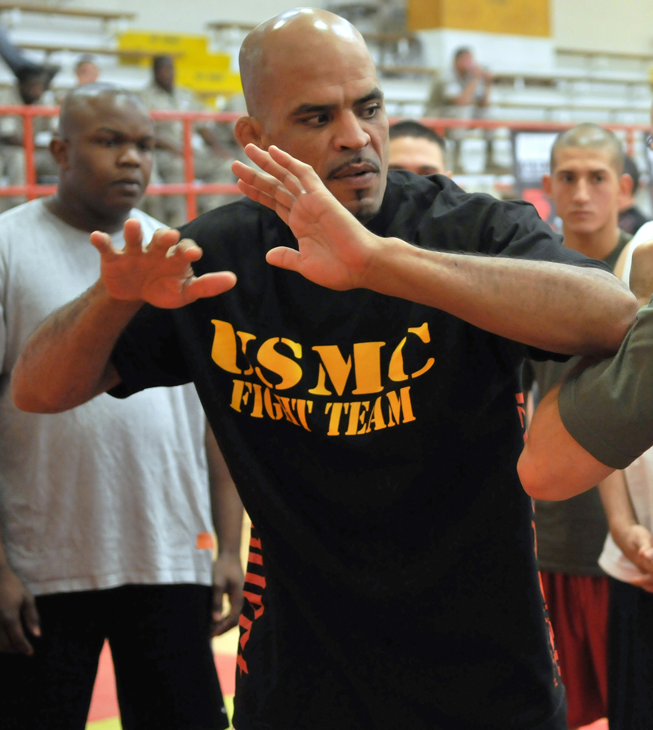 Jorge “El Conquistador” Rivera, mixed martial arts fighter, and Matt Phinney, boxing instructor, demonstrate striking techniques for Marines in the gym at the Marine Corps Air Station in Yuma, Ariz., Oct. 28, 2009. Train the Troops, sponsored and organized by Ranger Up, an MMA clothing company, visited the station to teach Marines mixed martial arts. (original text)